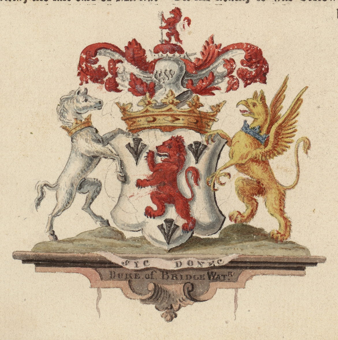 An image from a set of 8 extra-illustrated volumes of A tour in Wales by Thomas Pennant (1726-1798) that chronicle the three journeys he made through Wales between 1773 and 1776. These volumes are unique because they were compiled for Pennant's own library at Downing. This edition was produced in 1781. The volumes include a number of original drawings by Moses Griffiths, Ingleby and other well known artists of the period. Thomas Pennant (1726-1798)